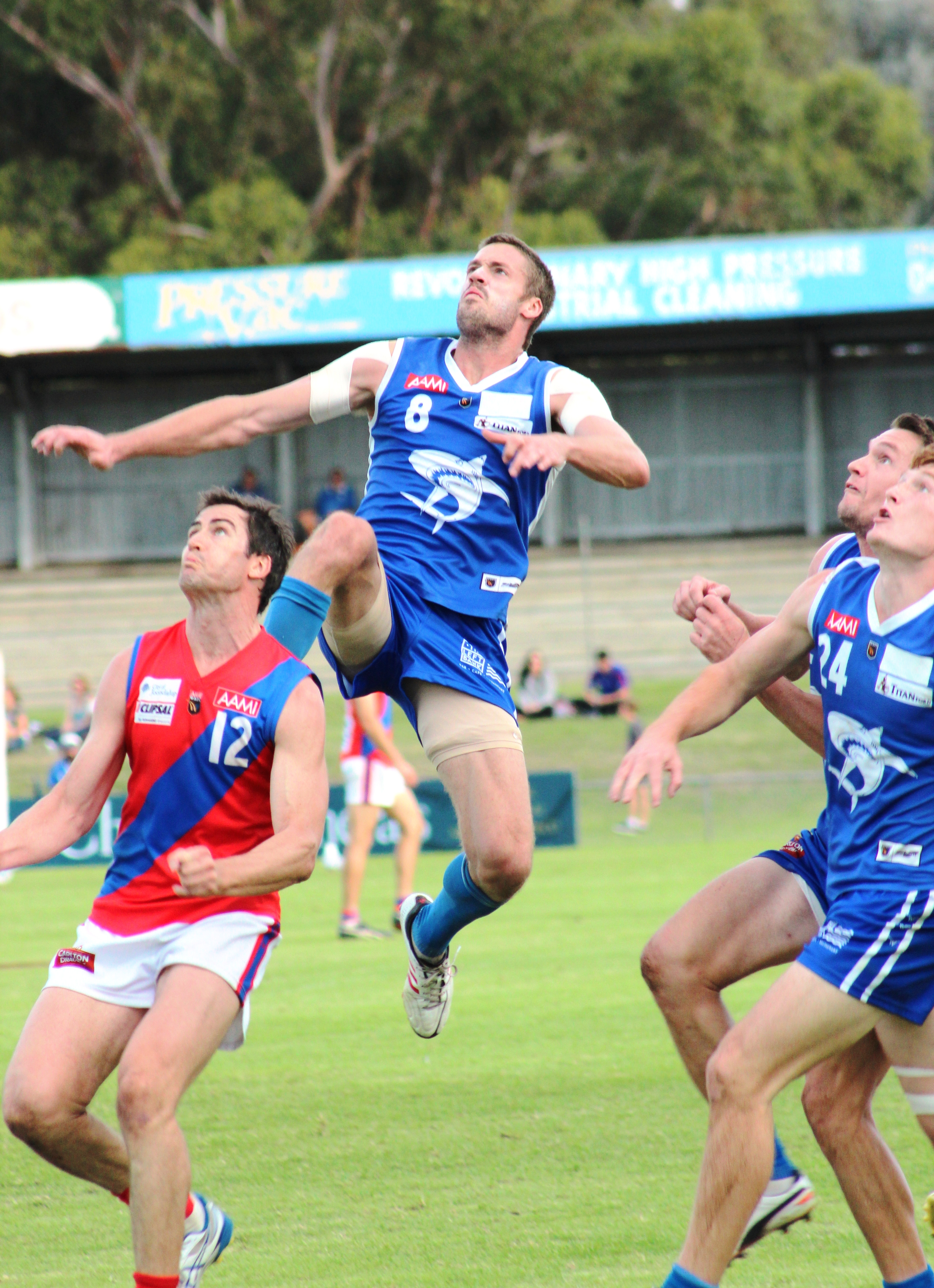 Stephen Dodd (East Femantle Football Club) vs West Perth 4th May 2013 at East Fremantle Oval. Image by Phil Elliott